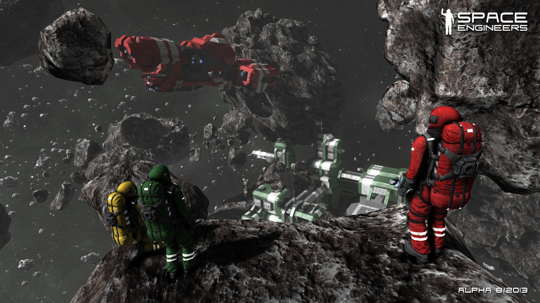 Screenshot of the game showing astronauts standing on an asteroid overlooking a space station.